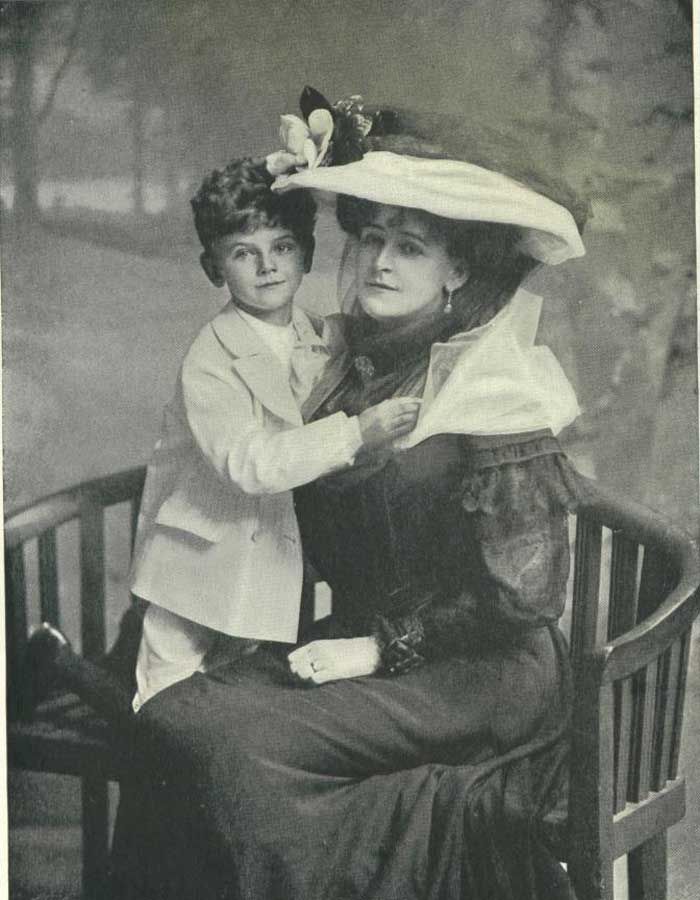 Portrait of Frances Evelyn Daisy Greville, Countess of Warwick, with her son Maynard Greville (1898-1960) fathered by Joseph Laycock